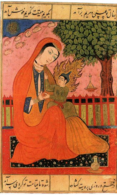 Virgin Mary and Jesus, old Persian miniature. In Islam, they are called Maryam and Isa. NOTE: See discussion page before using